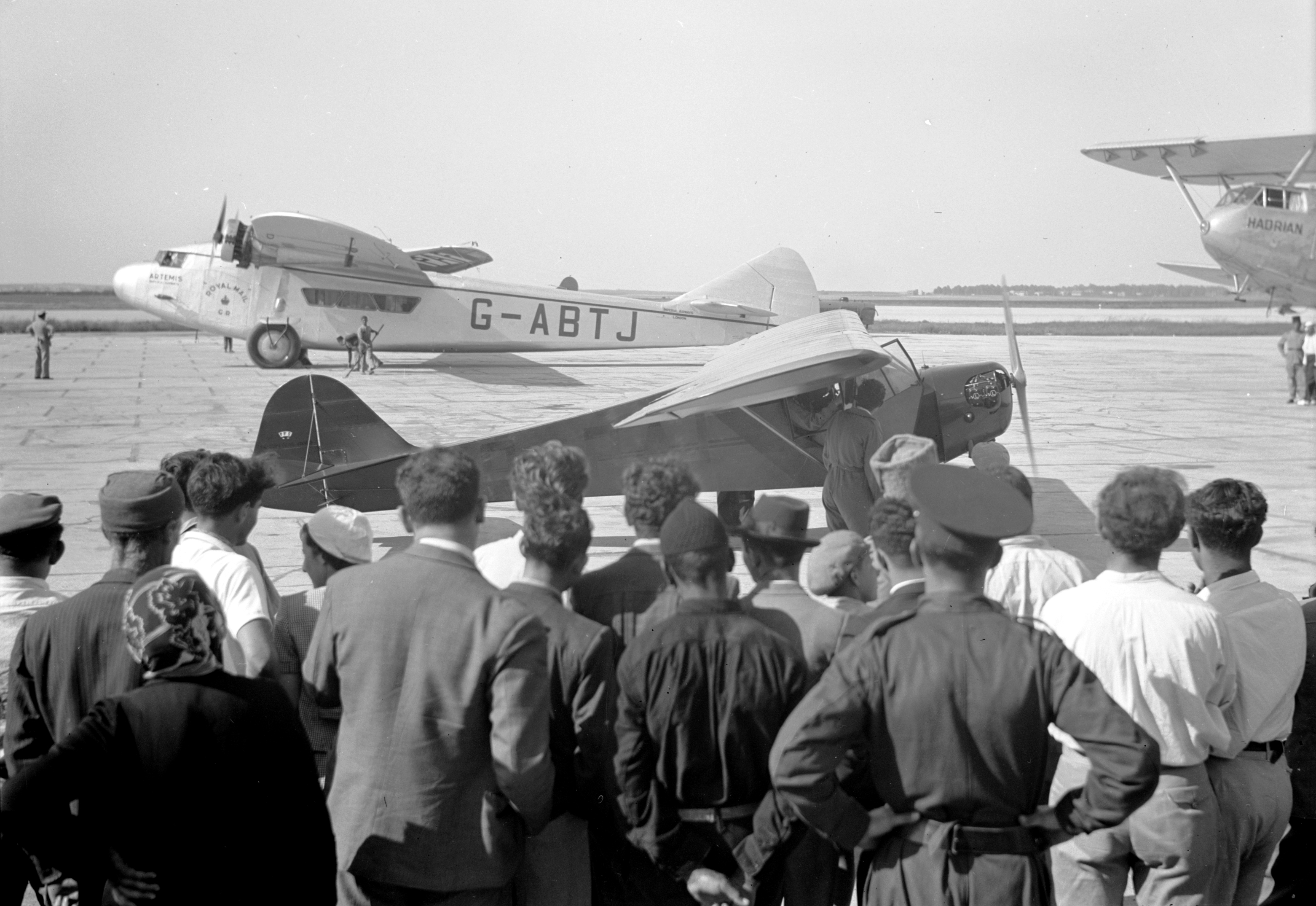 Wings over Palestine-Certificates of Flying School, April 21, 1939. A plane about to take off for a test flight [Lydda Air Port]